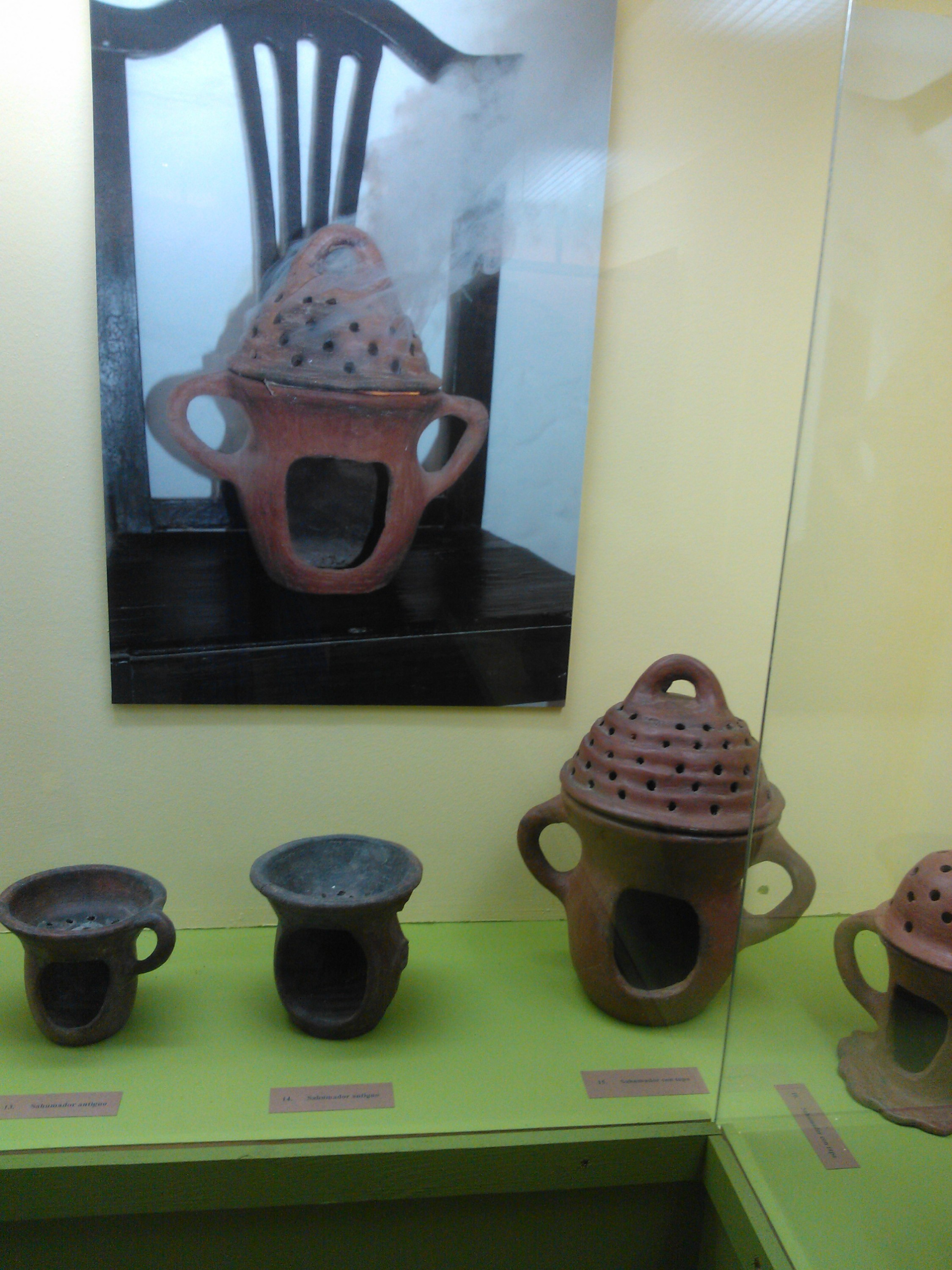 In 1999 opened the Museum Casa-Alfar name in the troglodytic complex of his hometown. The set of facilities, originally dependent on the Cabildo de Gran Canaria through the FEDAC (Foundation for ethnography and the development of the Canarian handicrafts), is managed locally by the ALUD (Association of artisans of the traditional pottery of La Atalaya de Santa Brígida). In addition to the conservation of the Ecomuseum "Panchito Casa-Alfar", the Centre annex locero has a number of educational and documentary as well as a permanent workshop and a Museum (thematic Hall) in which ancient specimens can be seen and new services of the typical locera dishes: bernegales, braziers, fogueros, ganigos, burners, jugs for gofio, sahumadores, tinajas for nuts, roasters for grain, etc.